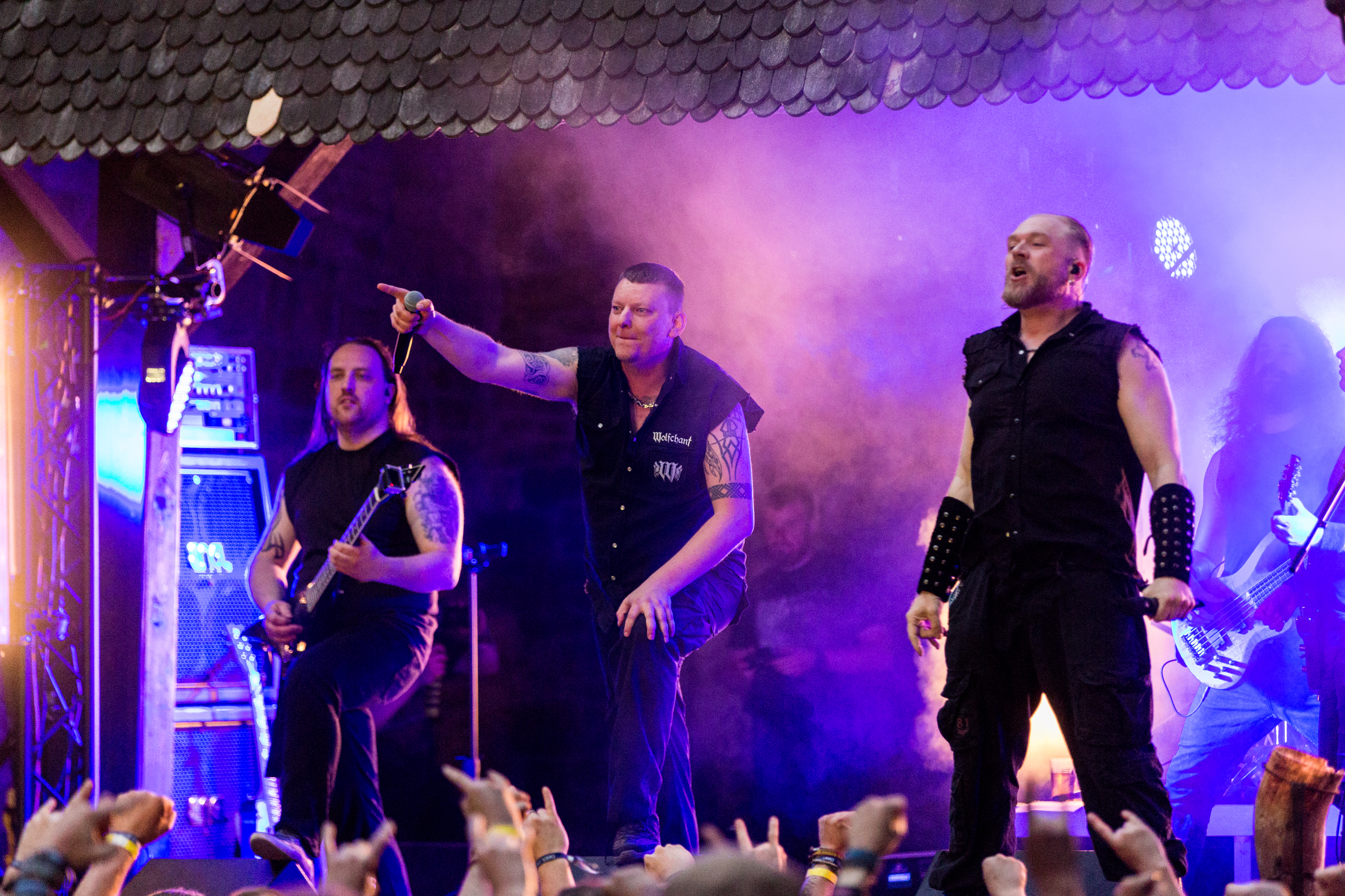 The German pagan metal band Wolfchant at the Dark Troll Open Air 2017 in Bornstedt/Germany.